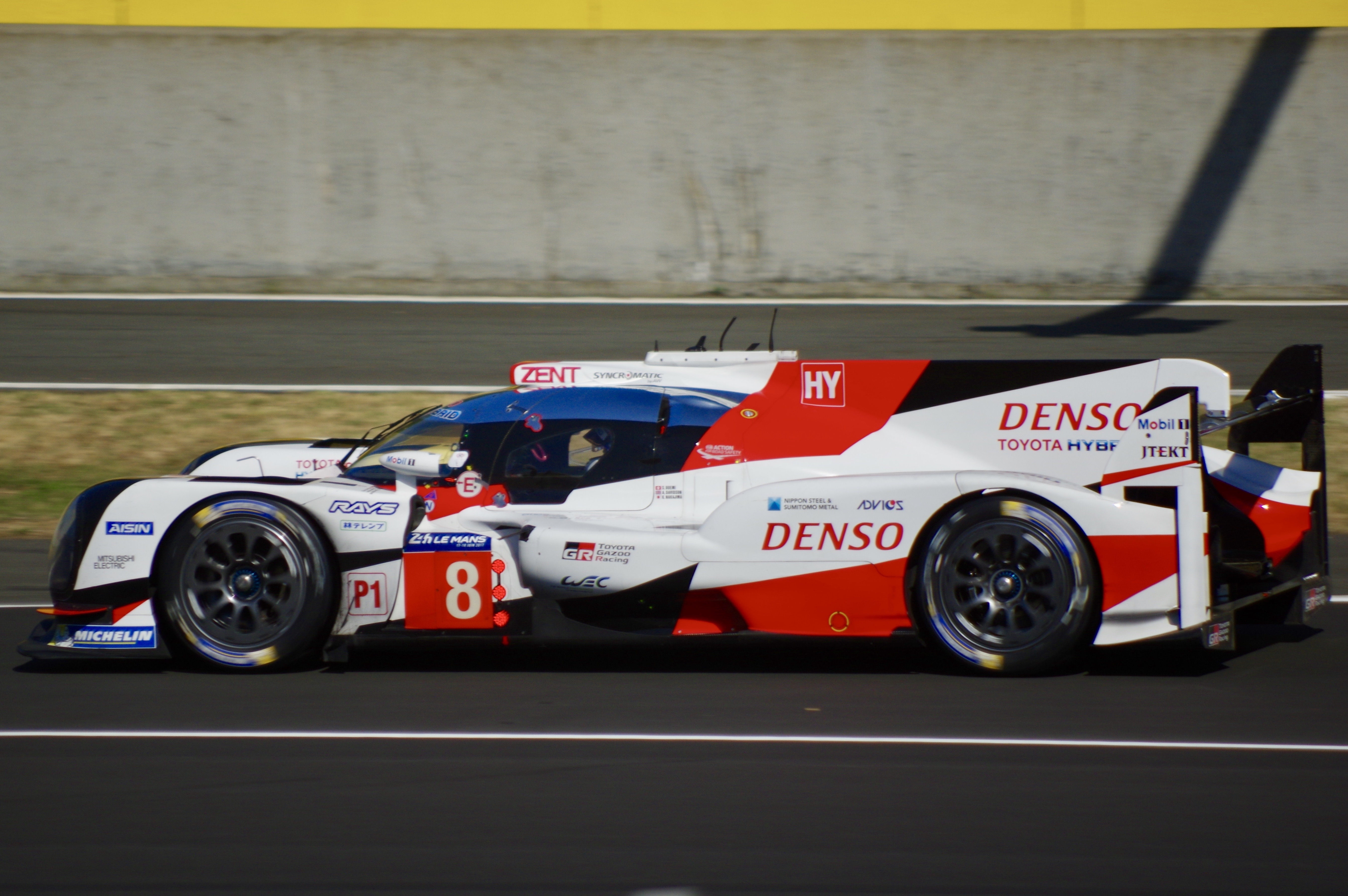 The No. 8 Toyota TS050 Hybrid driven by Sebastien Buemi, Anthony Davidson and Kazuki Nakajima at the 2017 24 Hours of Le Mans